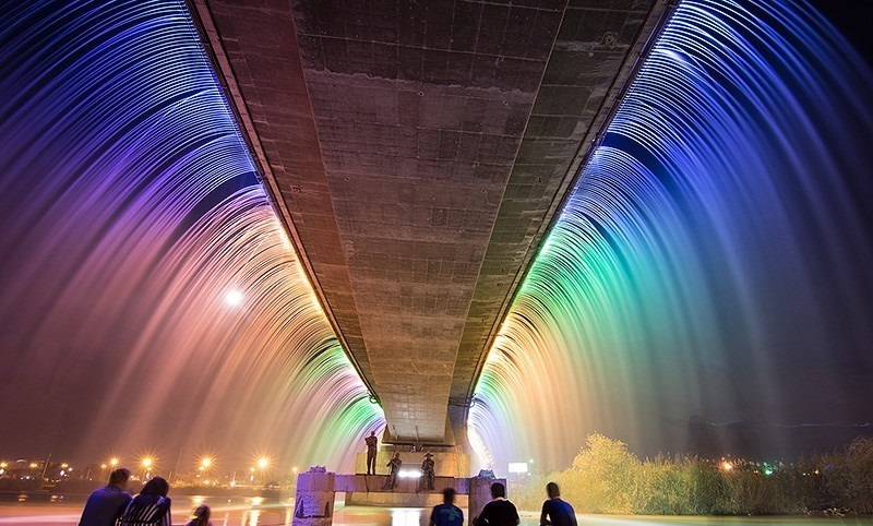 City of Ahvaz in night